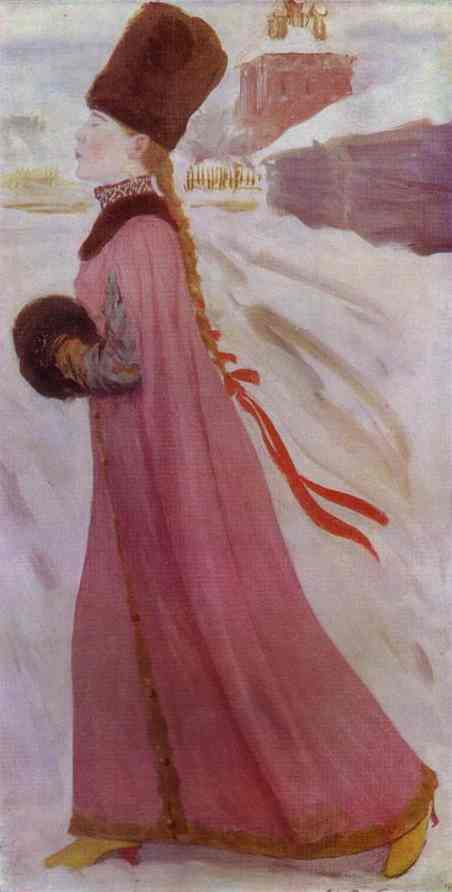 Moscow Girl of the XVII century